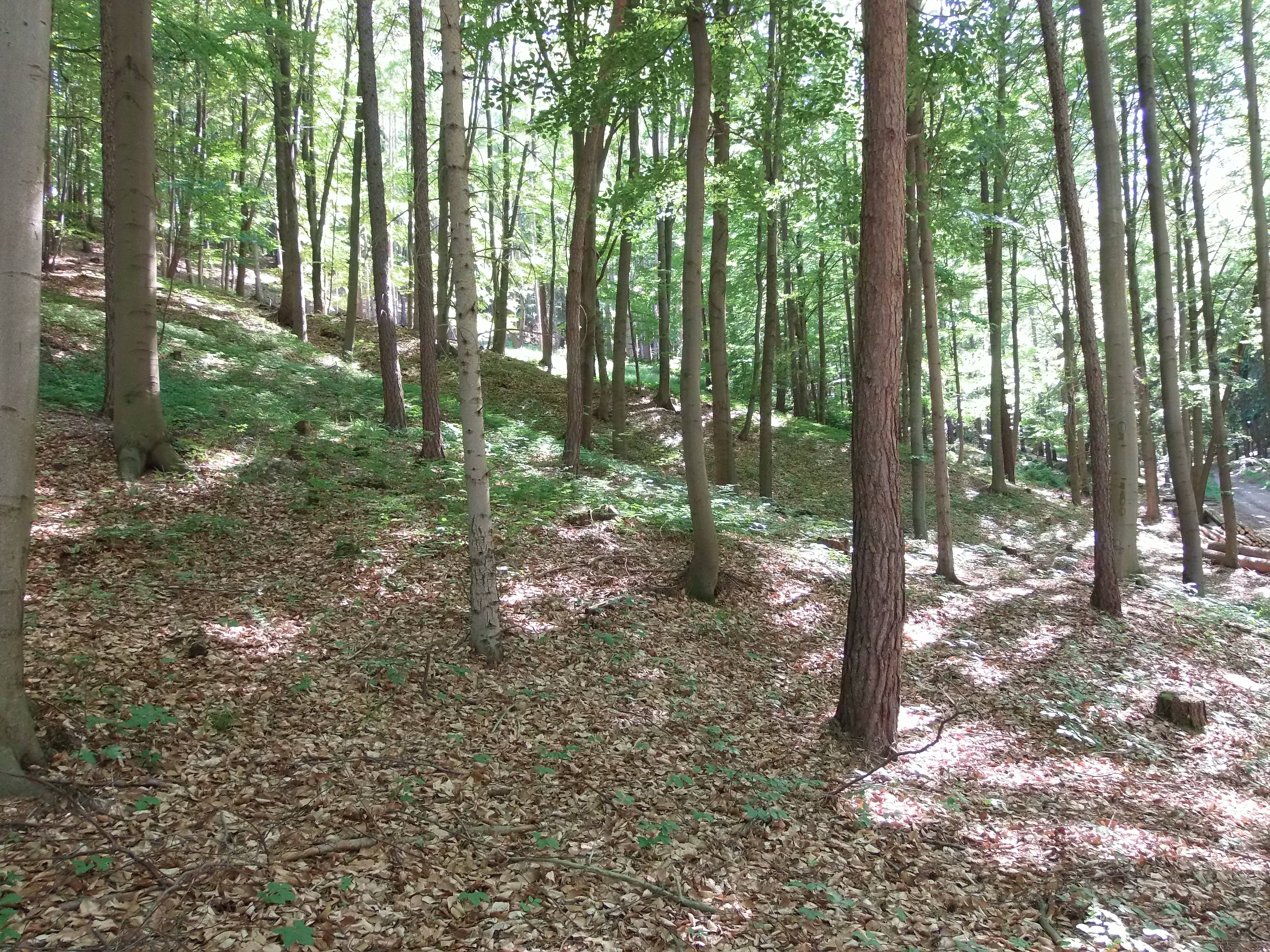 Natural monument Na Pilavě - habitat